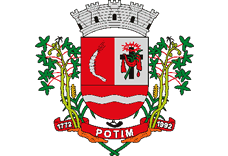 Coat of Arms of São Paulo's Potim city, Brazil.